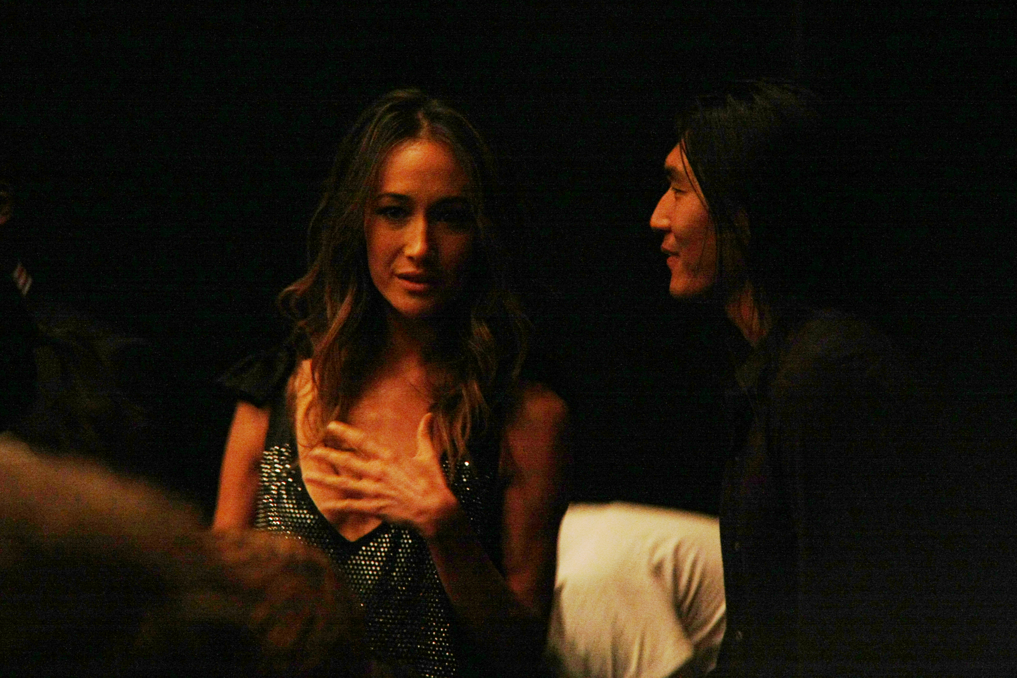 Maggie Q, at the world premiere of The Warrior and the Wolf, by Tian Zhuang-zhuang.